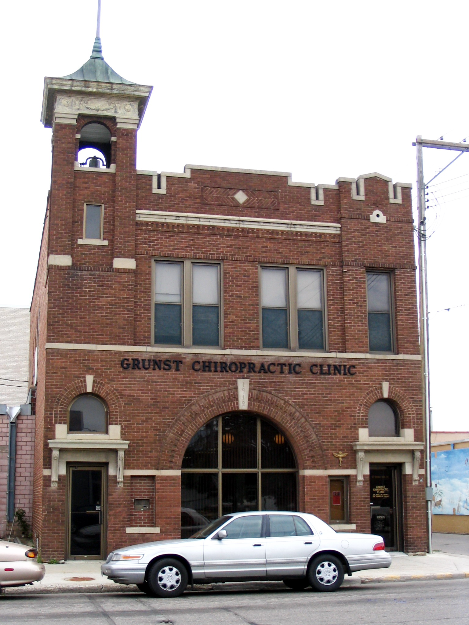 The former City Hall (1912) in Wadena, Wadena County, Minnesota. It is listed on the National Register of Historic Places.